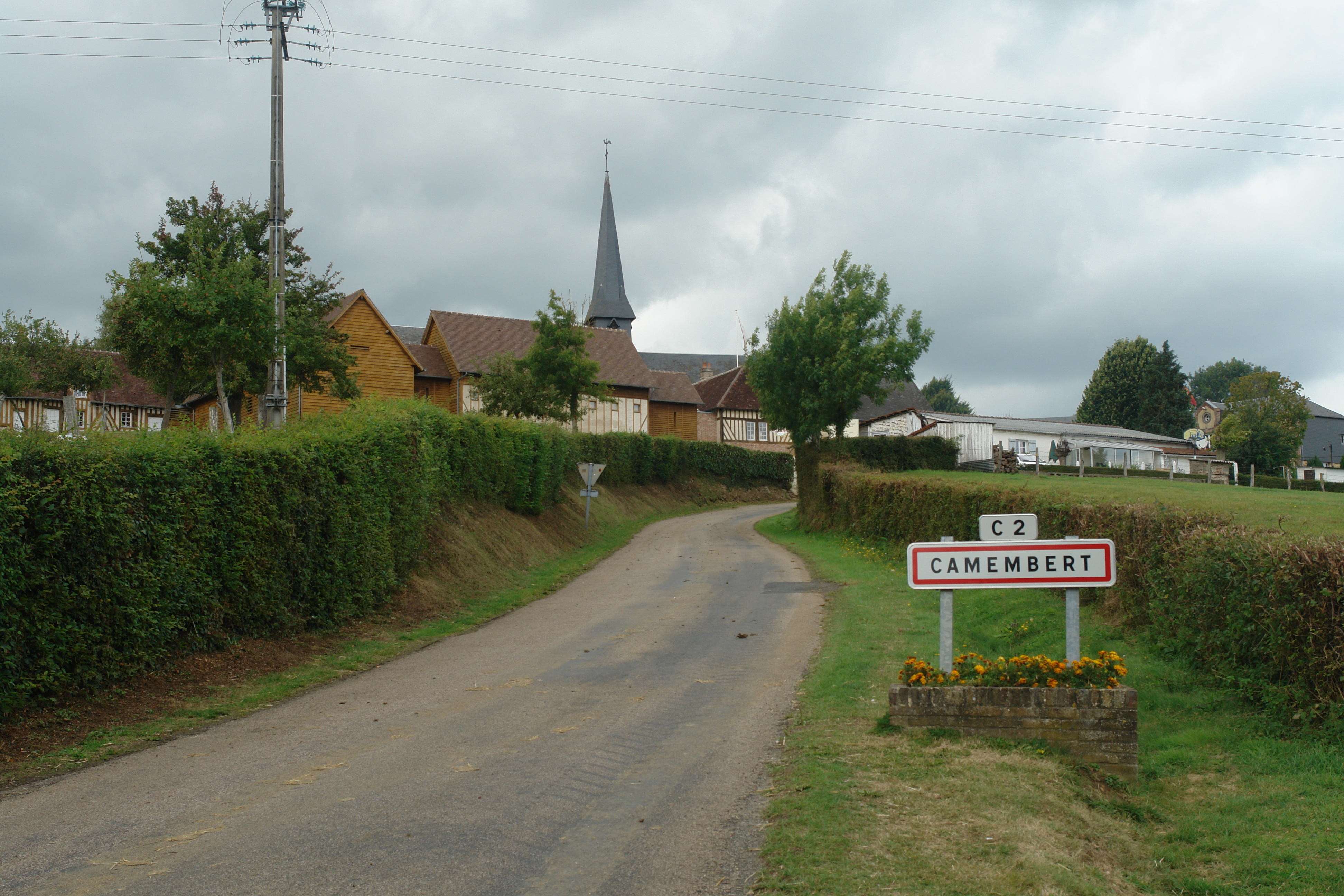 The sign outside the village of Camembert